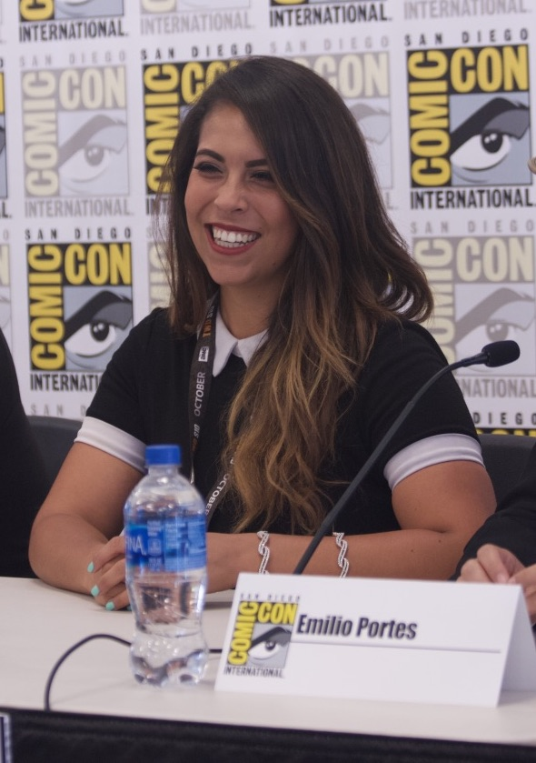 Latino Horror Ambassadors, Director Gigi Saul Guerrero, aka “La Muñeca Del Terror”, speaks at the 2019 San Diego International ComicCon panel.